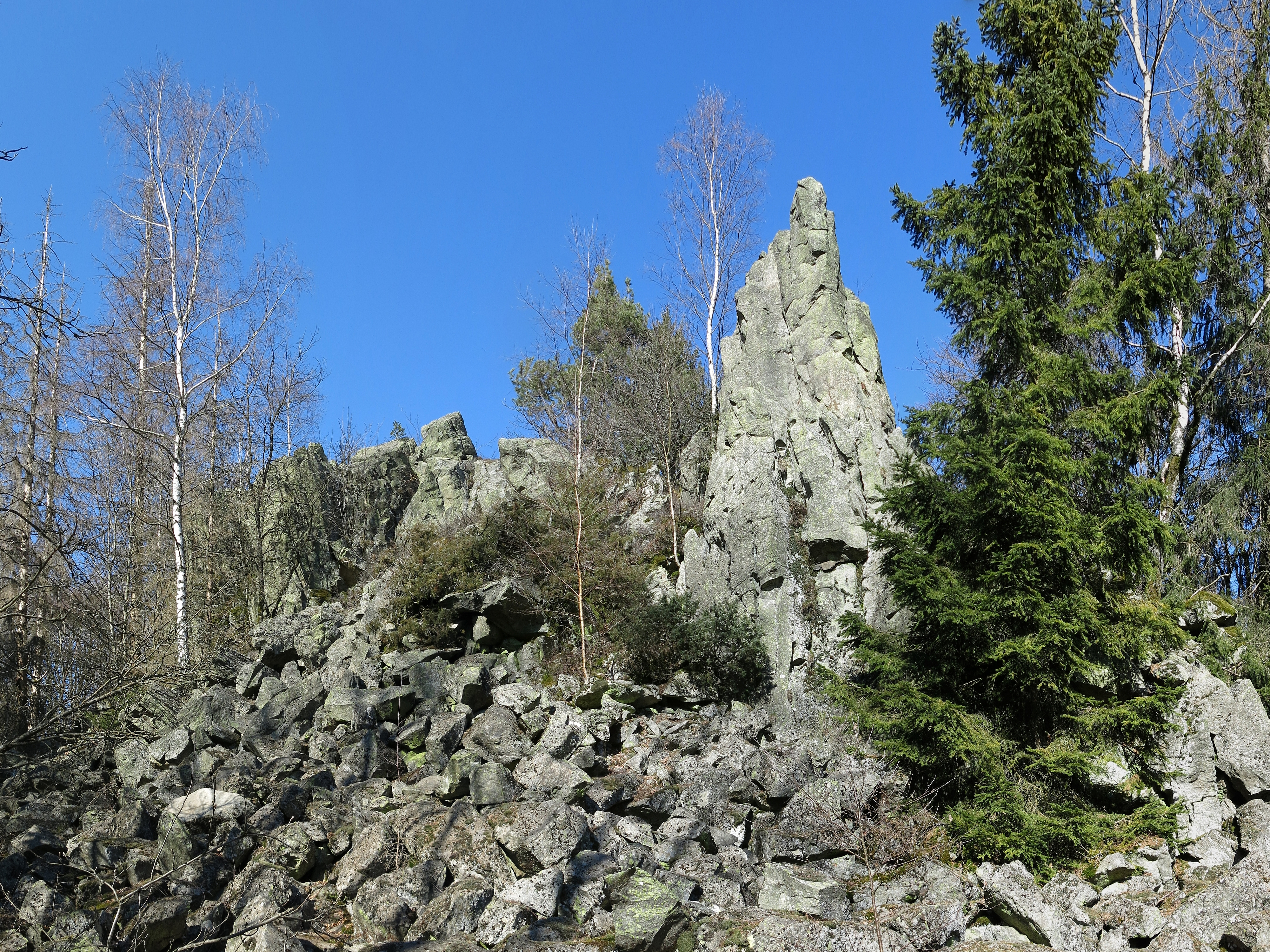 Phonolite rocks on the Teufelstein in the Rhön Mountains.